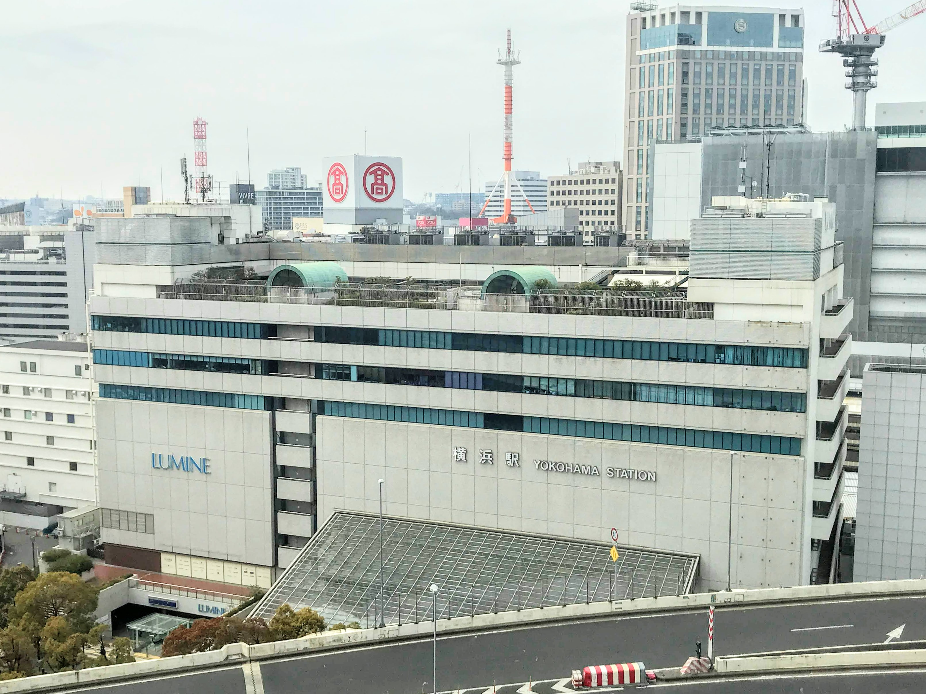 A panoramic view of Lumine Yokohama. Taken from the rooftop of Sogo Yokohama store.